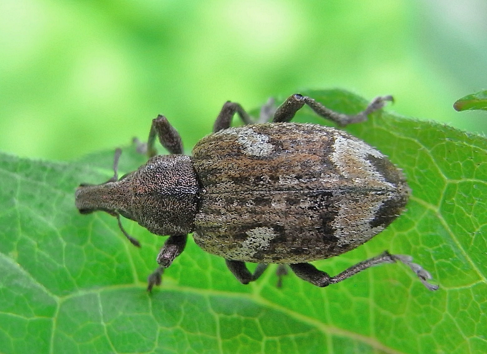 Graptus triguttatus from Hungary, in Bück-mountains at 2010-06-18 Ricoh R8